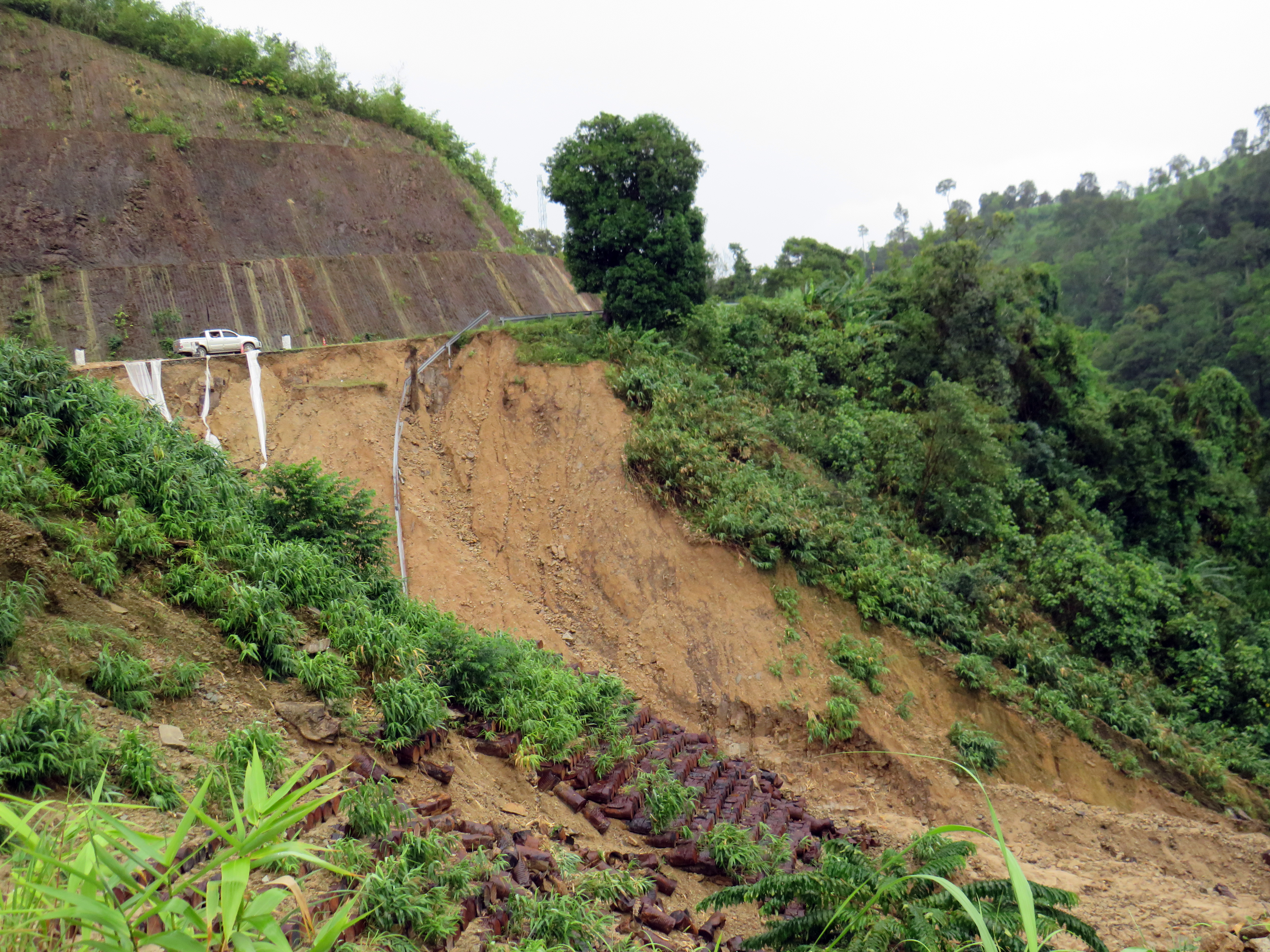 Landslide between Ye and Dawei